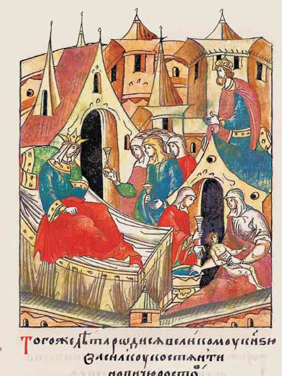 Maria Mikhhailovna of Chernigov having Gleb Vasilkovich